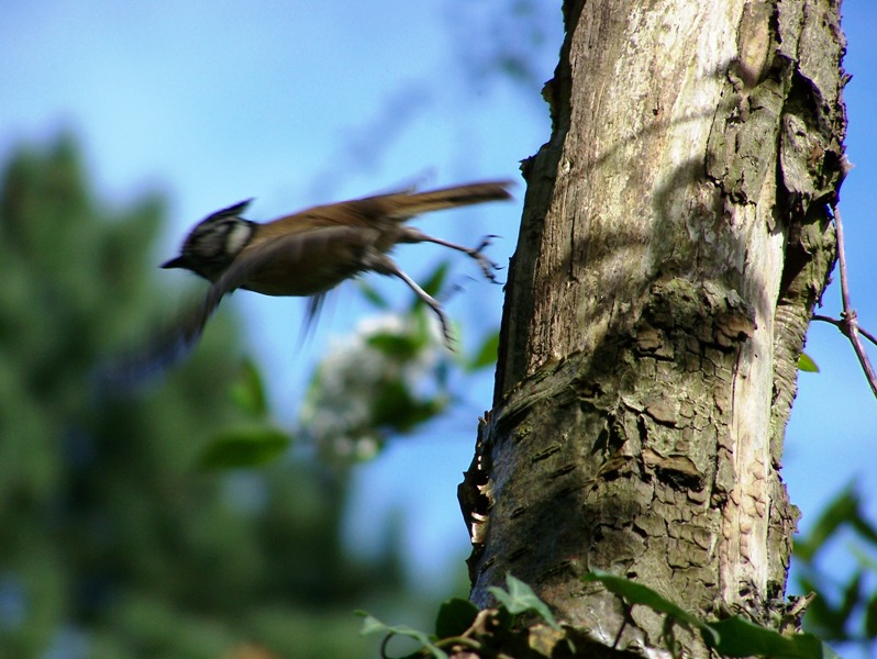 Crested tit